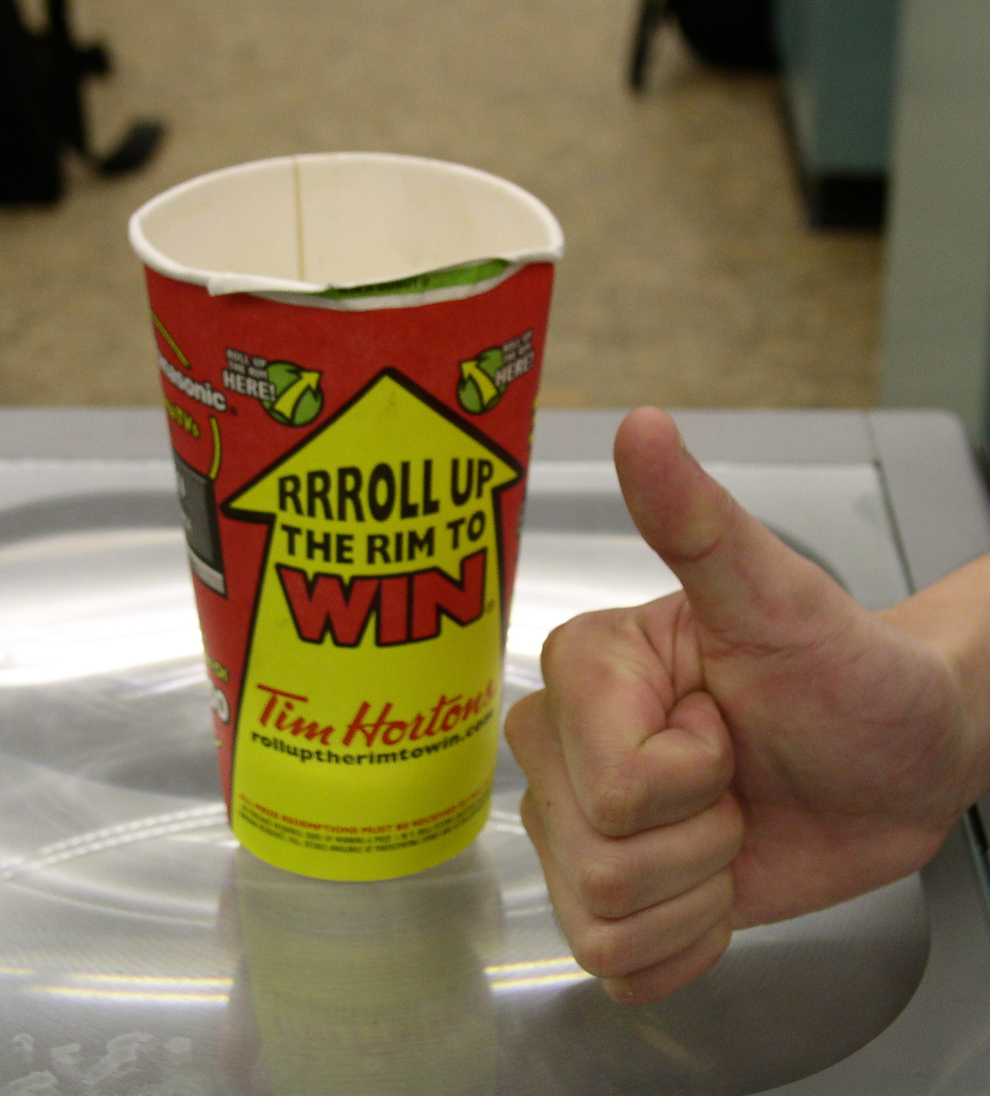 A winning Tim Hortons Roll up the Rim to Win cup